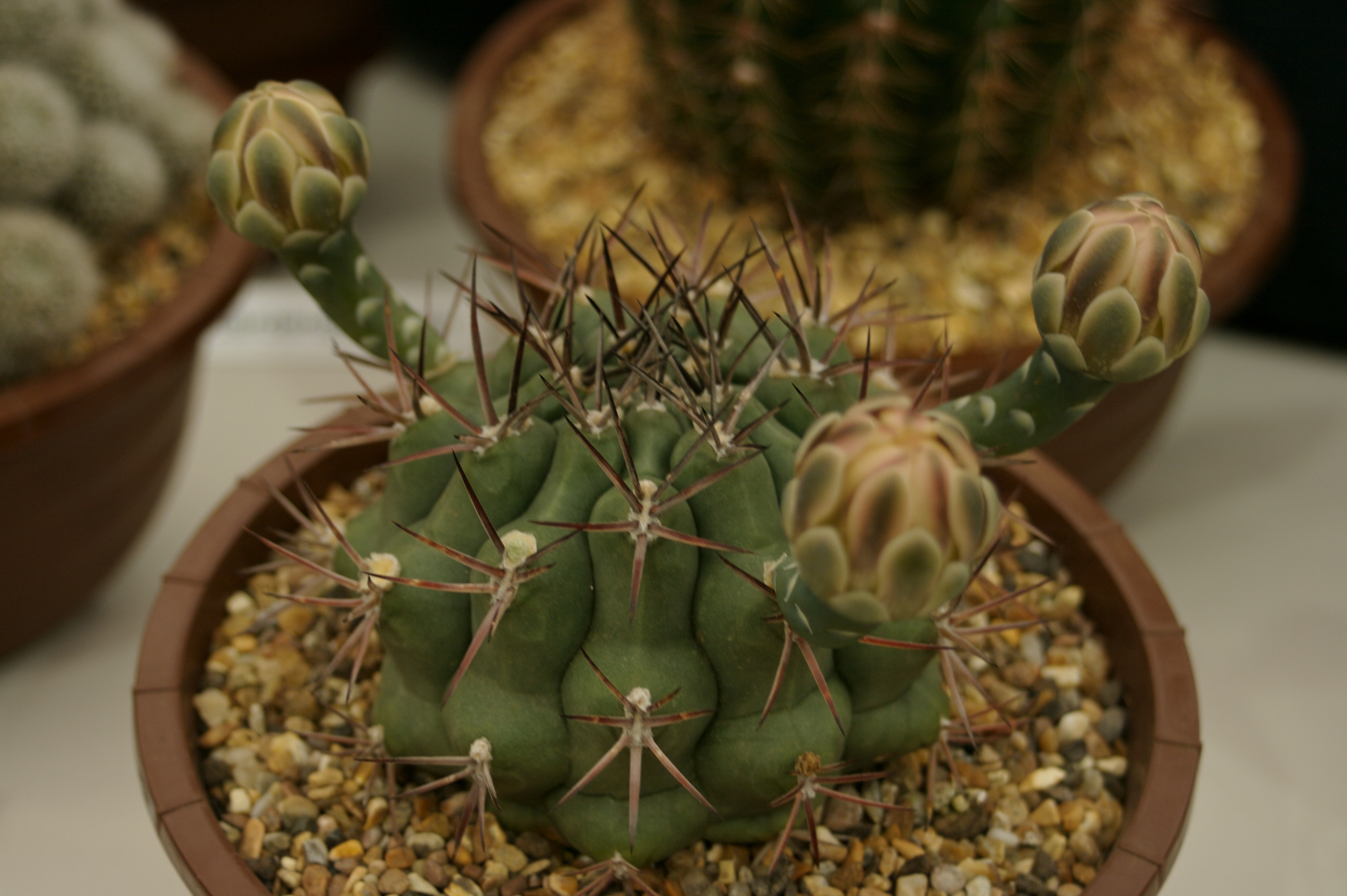 Gymnocalycium schickendantzii. Taken during Tatton Park Flower Show 2009